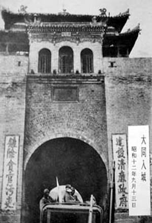 Yingen Gate of Datong City During Japanese invasion in 1937(Beside the photo is the title and the date of it)